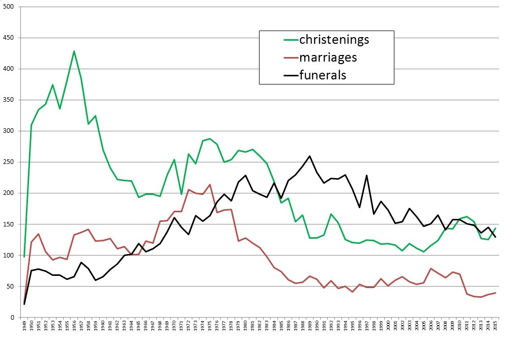 St. Anthony parish Gdynia, demographics: christenings, marriages and funerals, 1949-1999